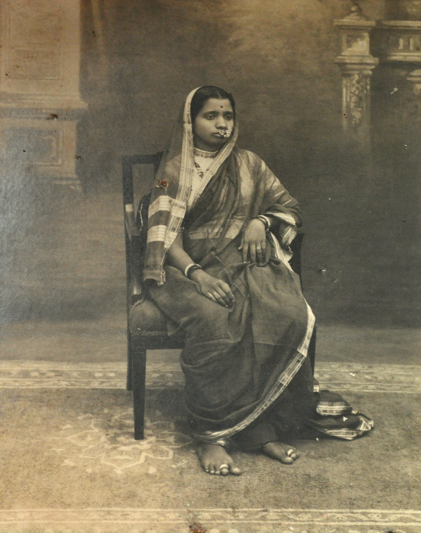 gunwanta bai